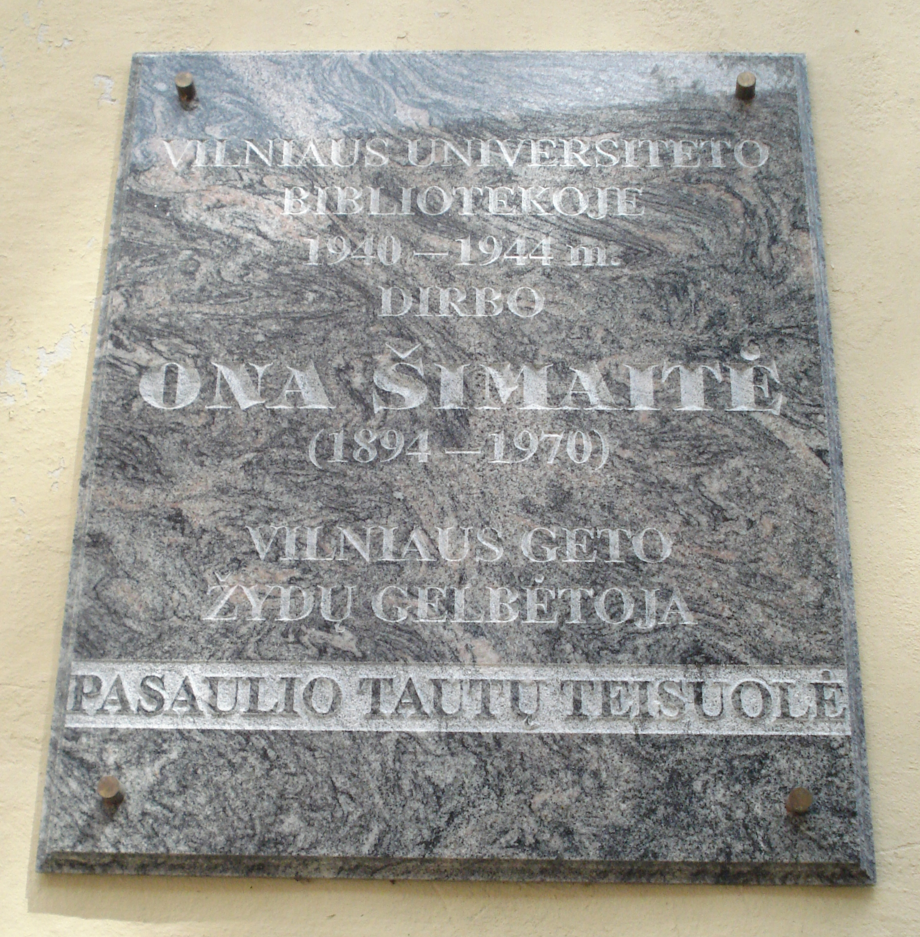 Plaque in memory of Ona Šimaitė (1894-1970), Righteous Among the Nations, in the Daukantas yard on the building of Vilnius Yiddish Institute